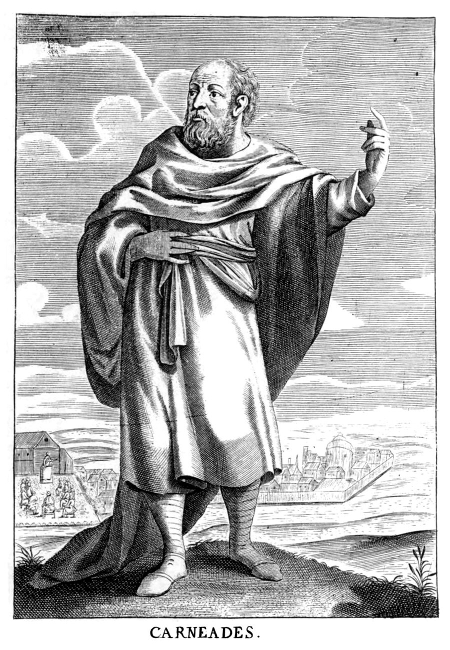 Carneades, ancient Greek philosopher. From Thomas Stanley, (1655), The history of philosophy: containing the lives, opinions, actions and Discourses of the Philosophers of every Sect, illustrated with effigies of divers of them.